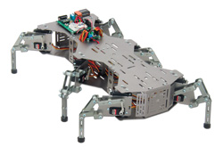 A 6-legged robot from Parallax, Inc.